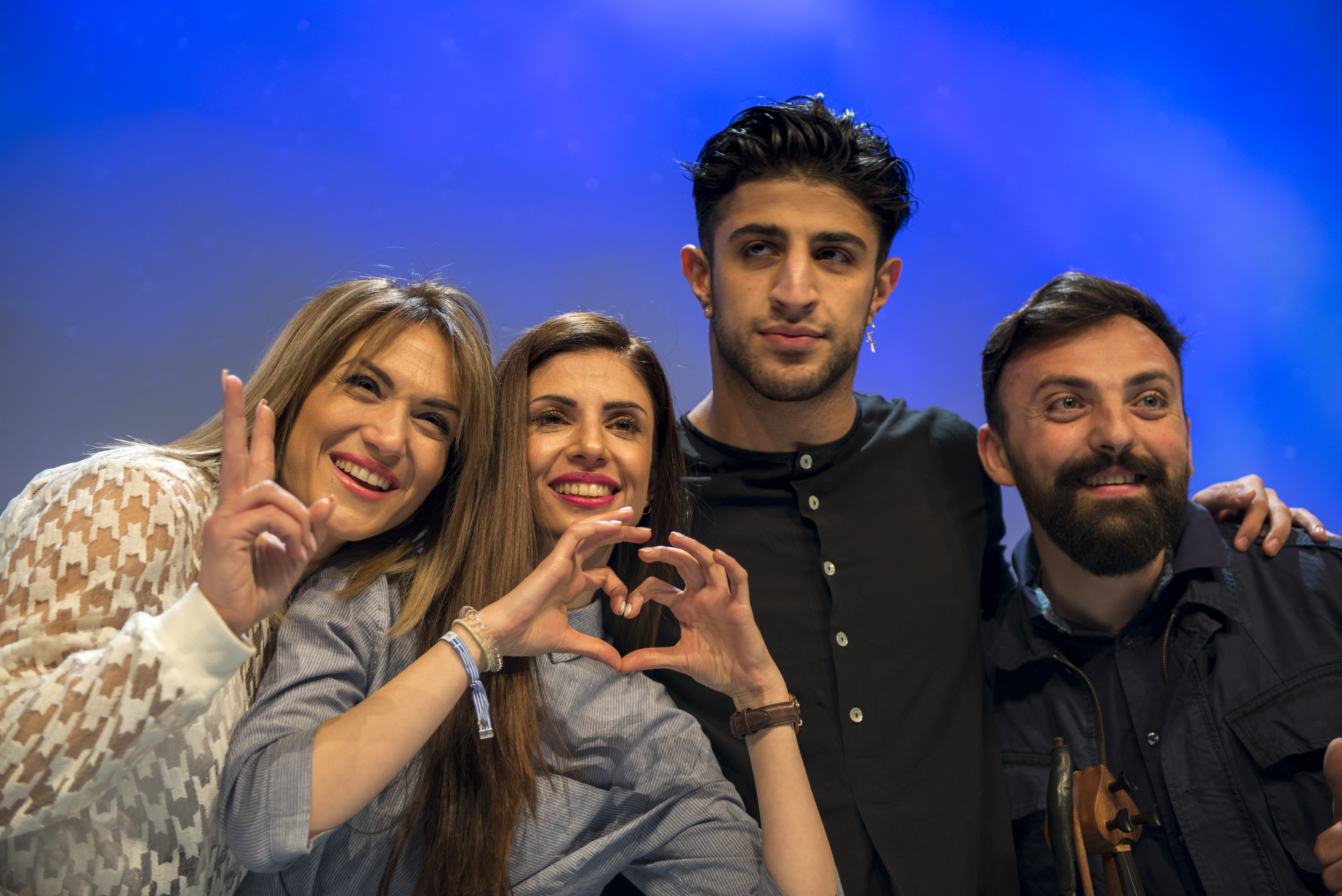 Argo at a Meet & Greet during the Eurovision Song Contest 2016 in Stockholm. (Help translate this text)